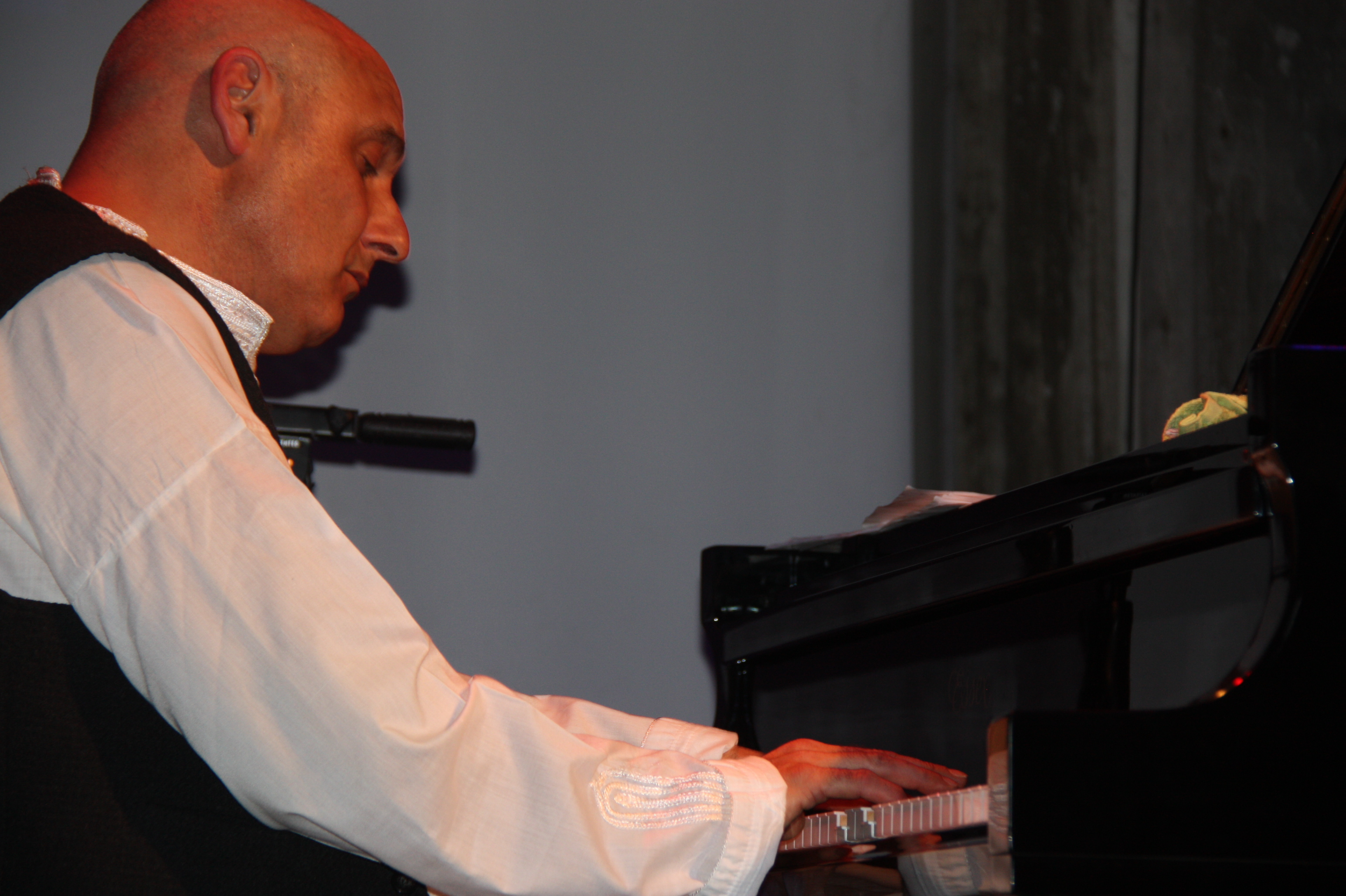 Arik Strauss trio concert at Beit Hayotzer, Tel Aviv held on March 2014